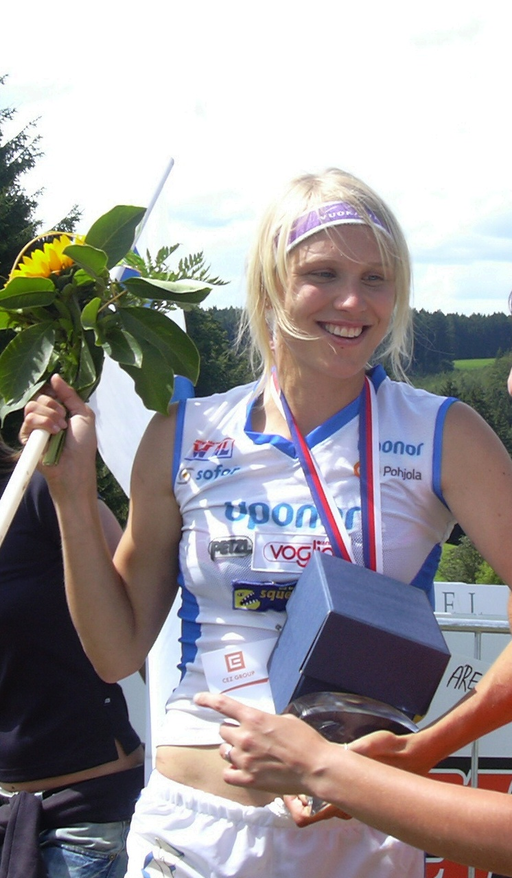 World Orienteering Championships 2008 in Olomouc, Czech Republic. On photo Minna Kauppi.